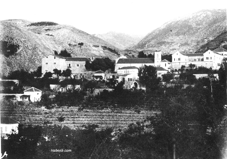 A skyline picture of Ghazir during the late Ottoman era